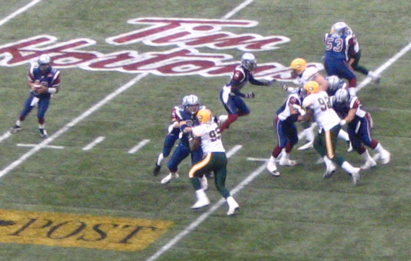 Description Montreal Alouettes quarterback Anthony Calvillo holds the ball and looks down field during game action in the 93rd Grey Cup game against the Edmonton Eskimos, November 27, 2005, at BC Place Stadium in Vancouver, British Columbia, Canada. Date27 November 2005SourceFlickrAuthortrec_litReviewerHeqs Montreal Alouettes quarterback Anthony Calvillo holds the ball and looks down field during game action in the 93rd Grey Cup game against the Edmonton Eskimos, November 27, 2005, at BC Place Stadium in Vancouver, British Columbia, Canada.